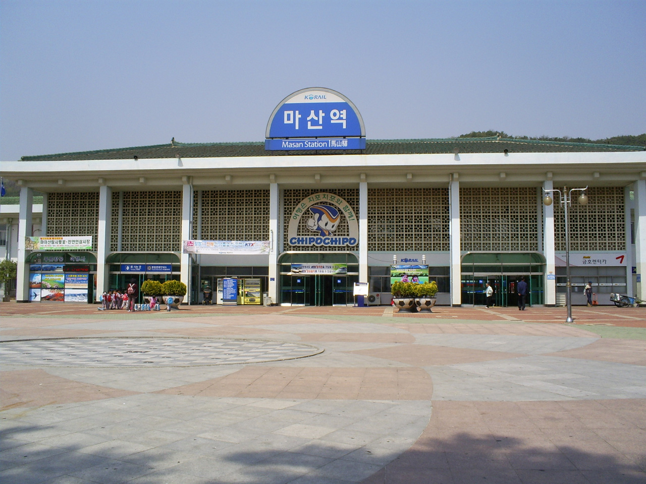 Masan Station